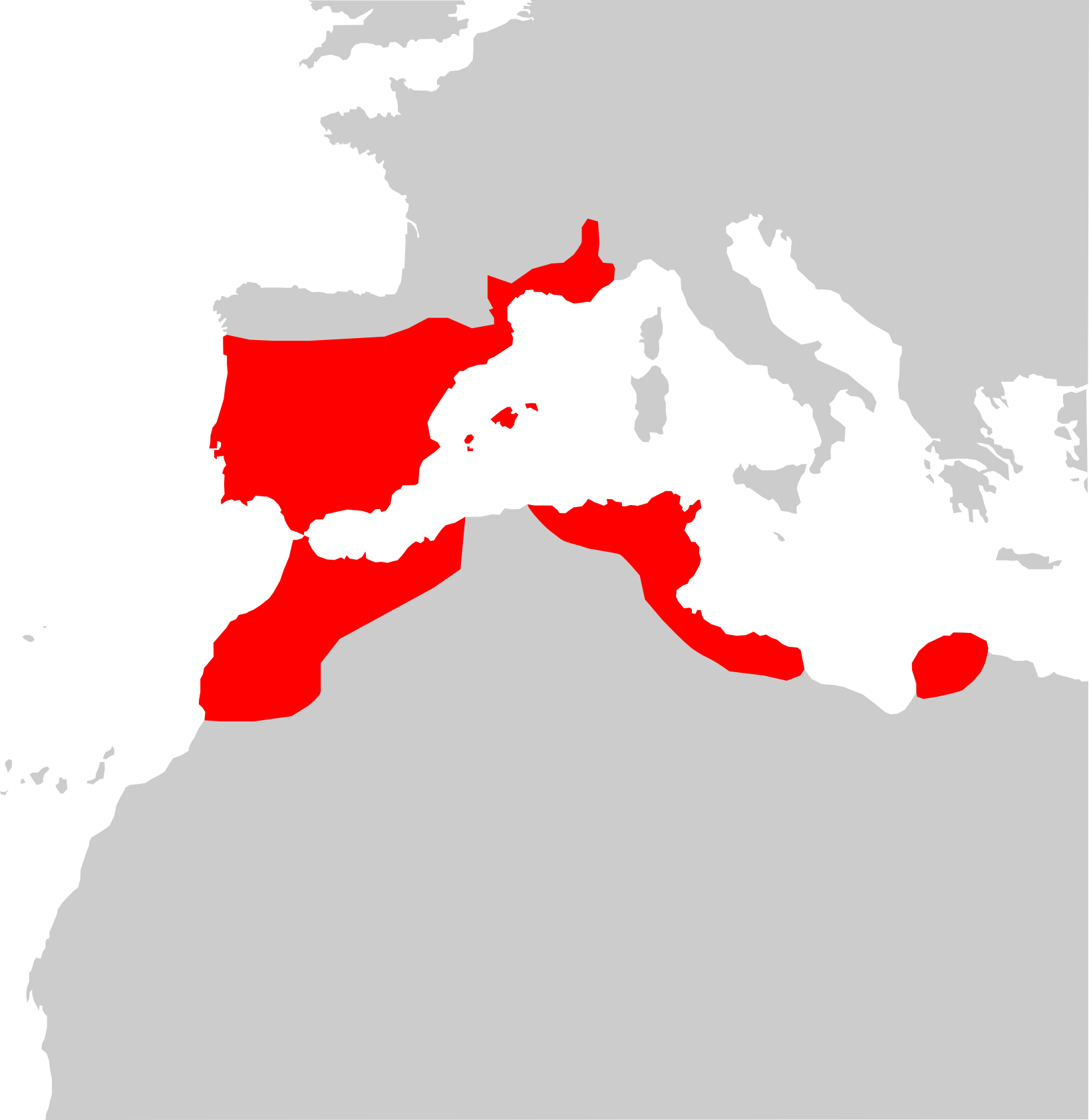 Distribution range map of Mus spetrus